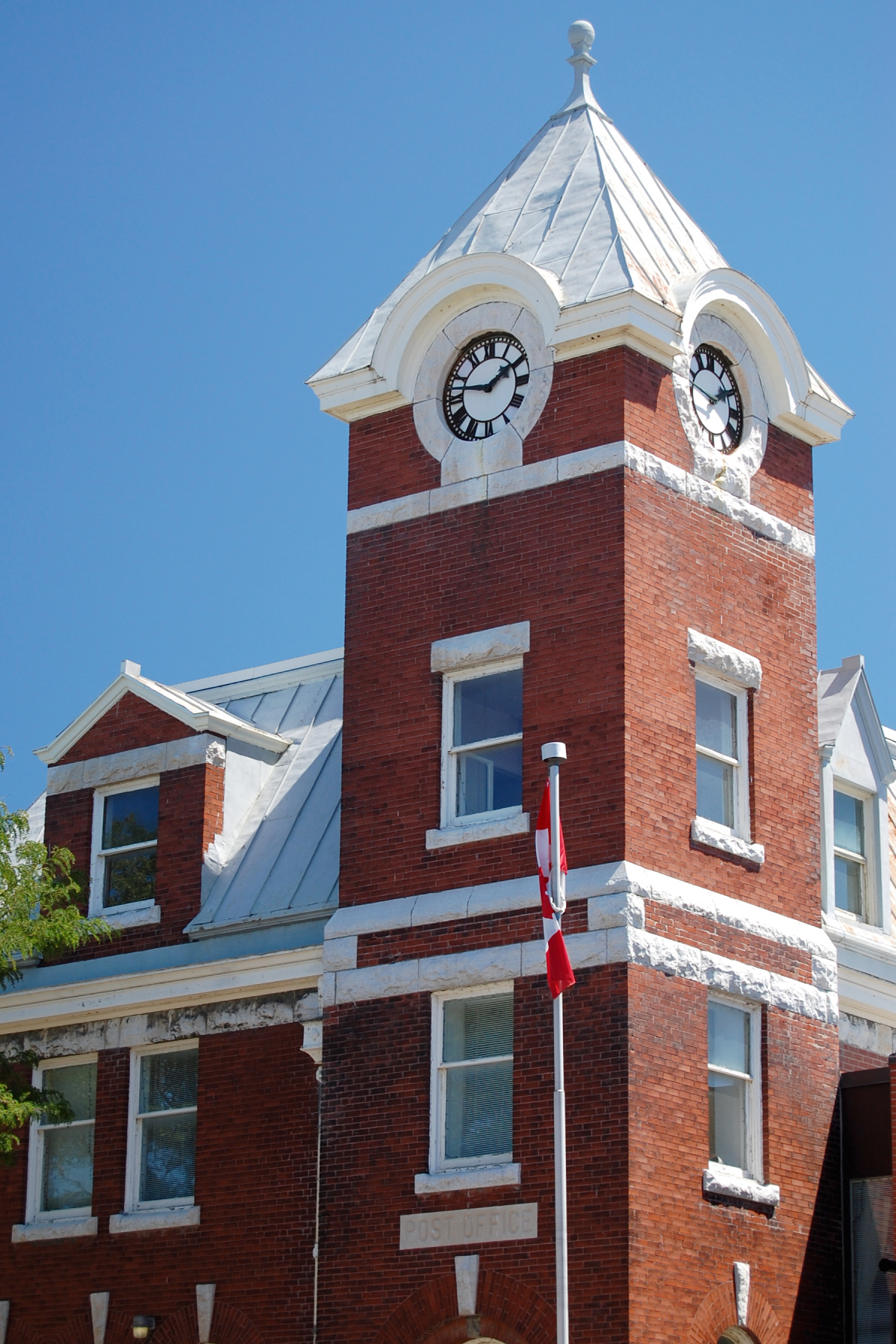 Historic Post Office Building in Downtown Port Perry